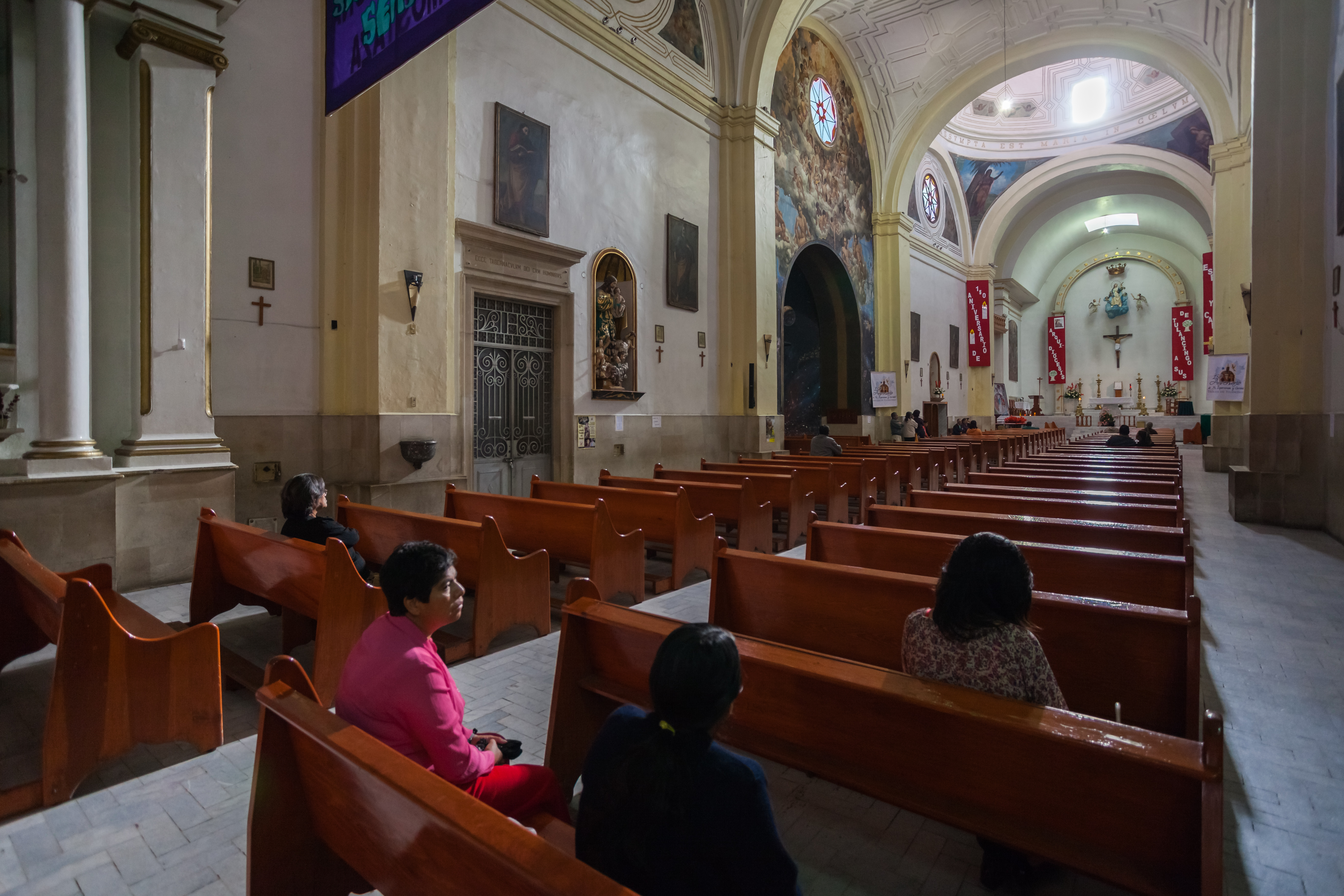 Parish of the Assumption, Pachuca, Hidalgo, Mexico